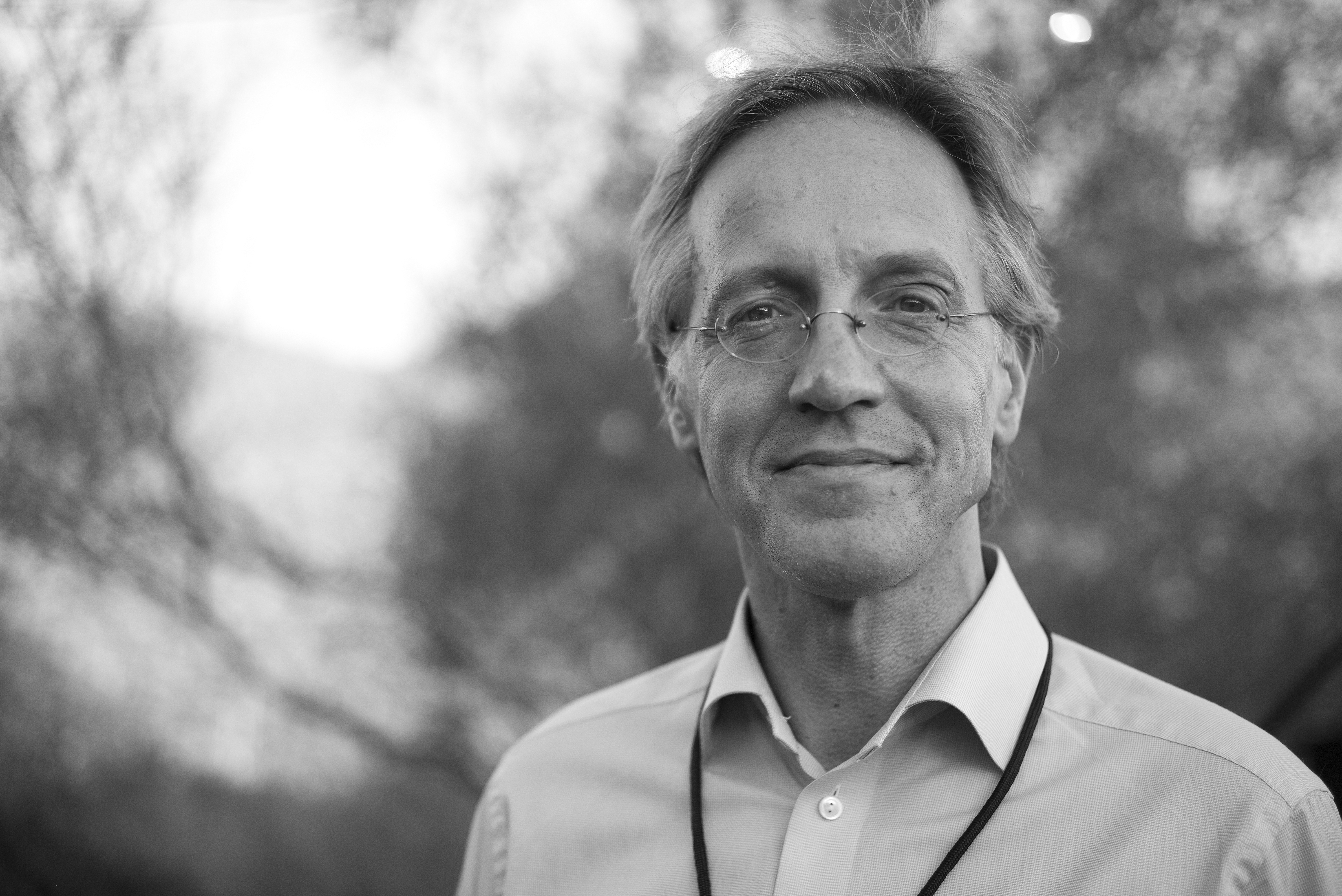 Robbert Dijkgraaf by Christopher Michel 2016